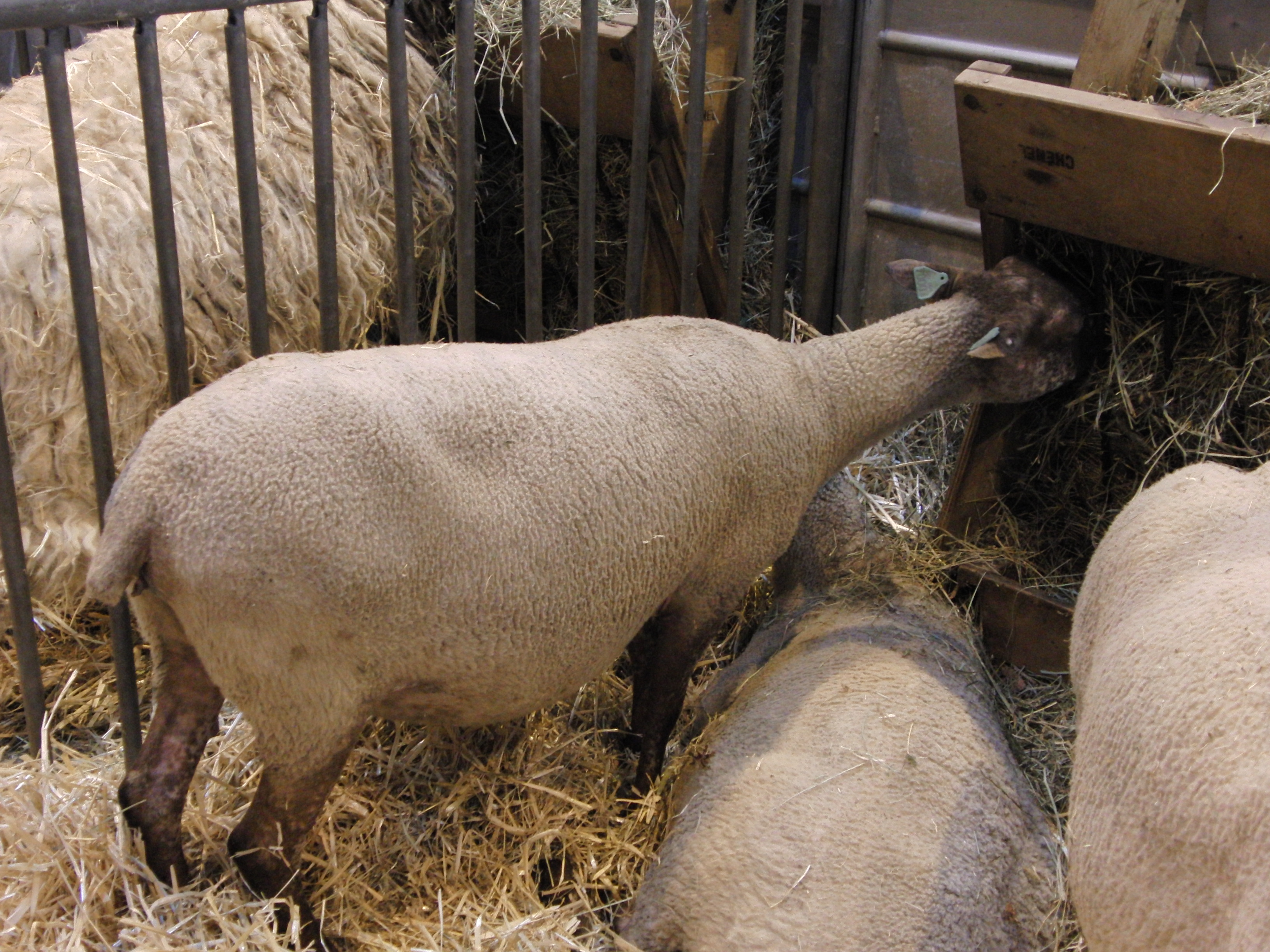 Grivette sheep - Salon international de l'agriculture 2011, Paris, France